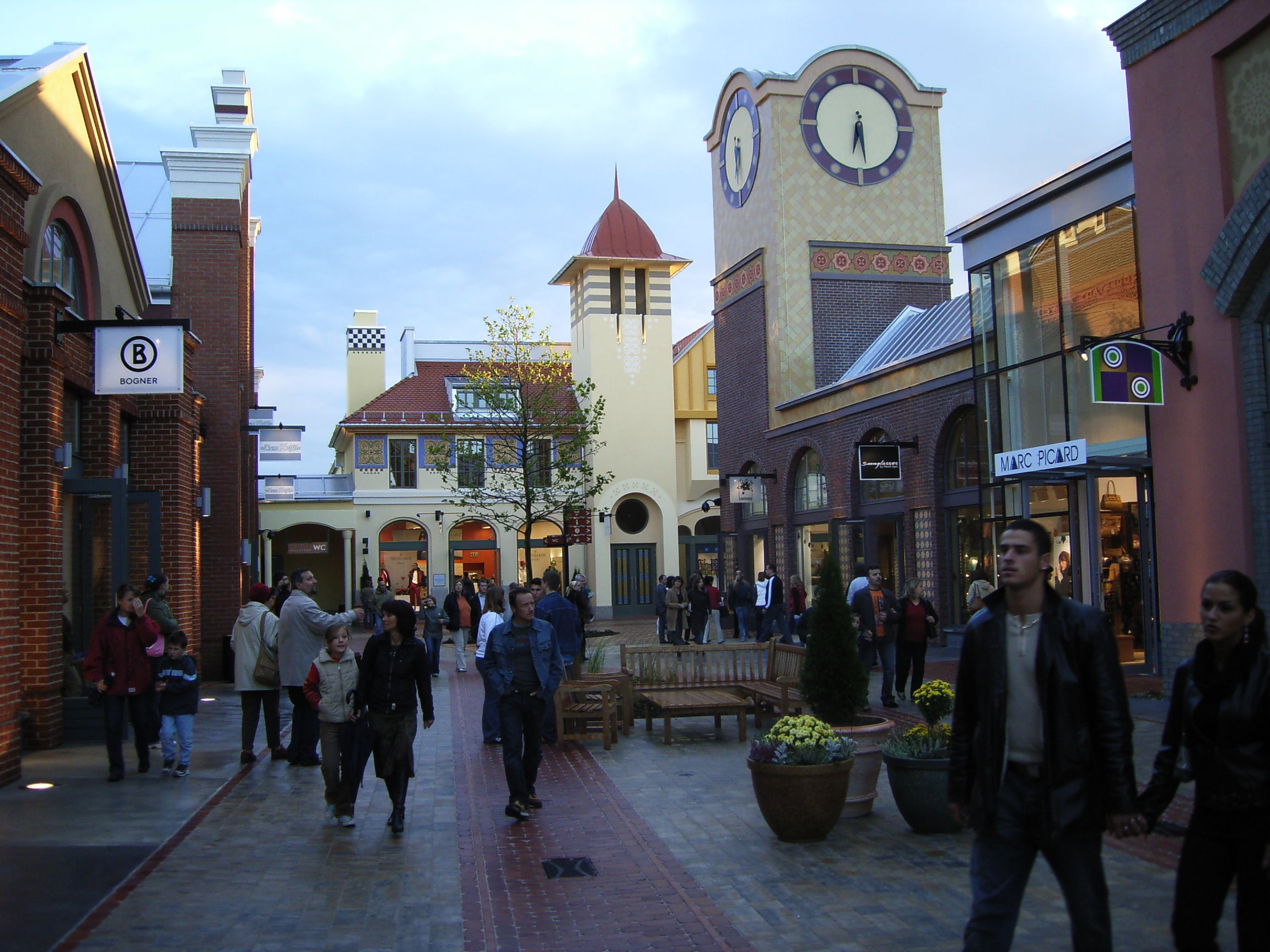 Opened 2005-09-29 near Ingolstadt: Factory Outlet Center "Ingolstadt Village"